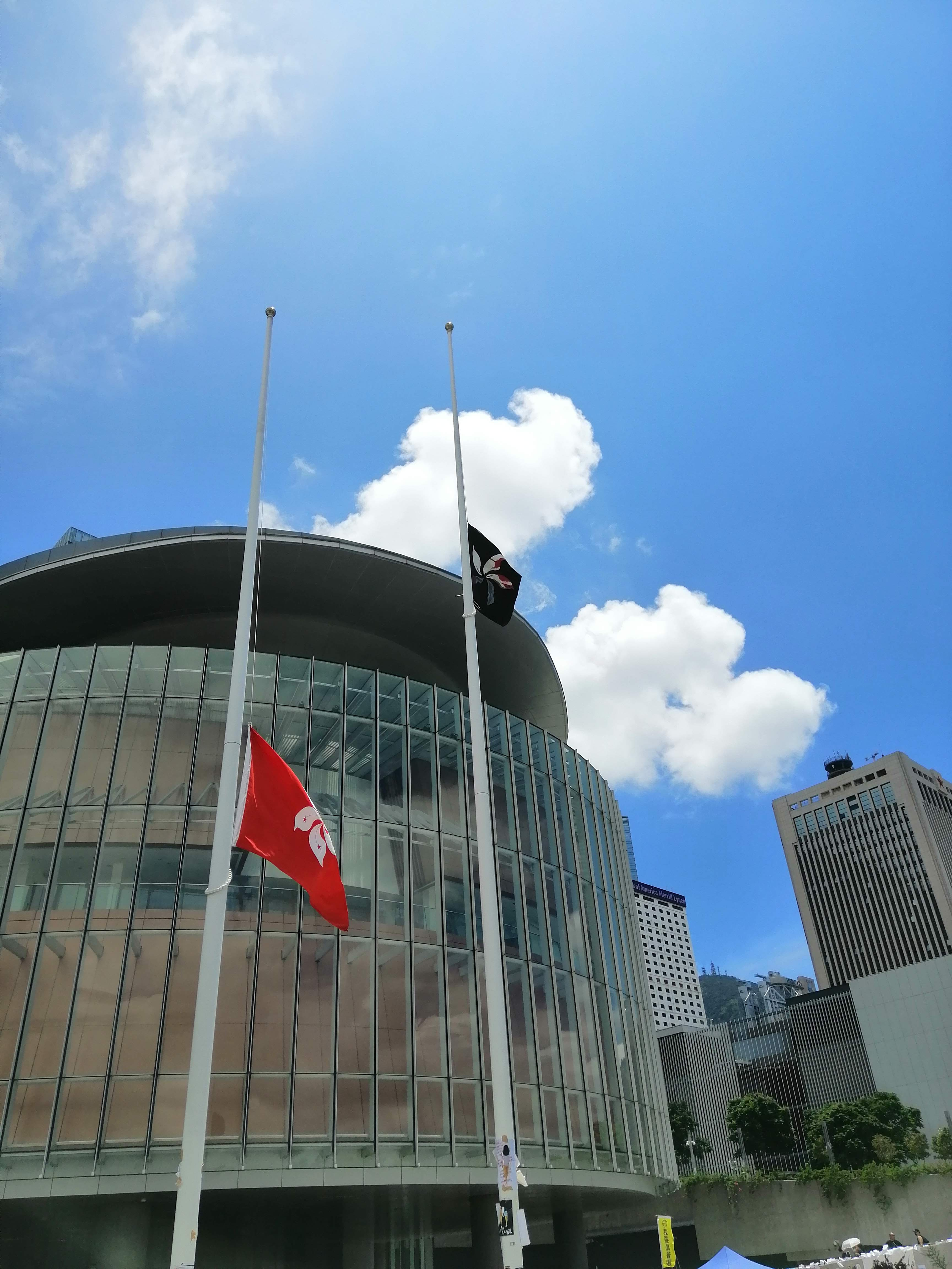 Black Bauhinia Flag flying outside Hong Kong's Legislative Council at the pole which originally hanged PRC flag, in the afternoon of1 July 2019, with flag of HKSAR lowered at half-mast by protesters.